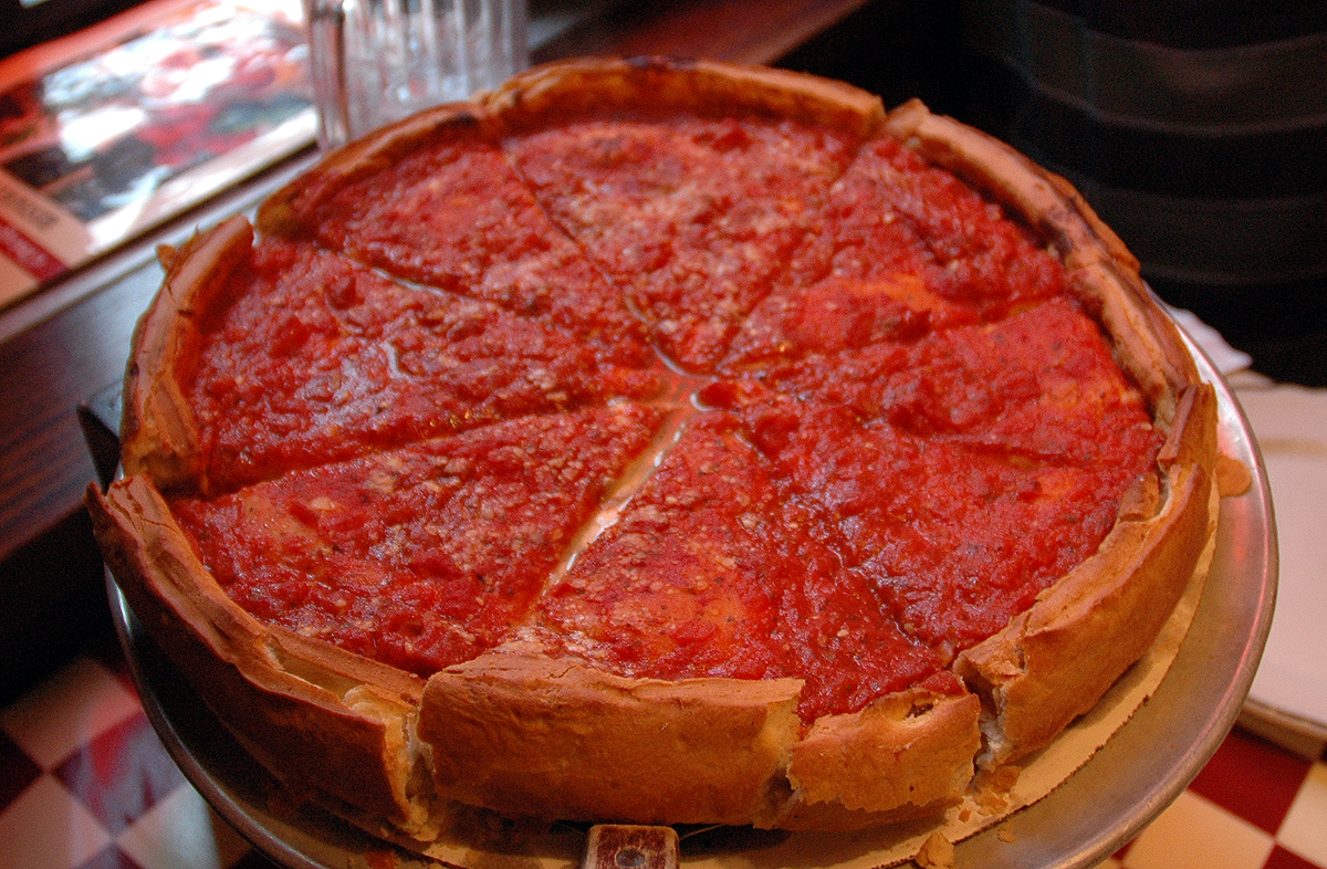 Chicago Style Pizza with a rich tomato topping.